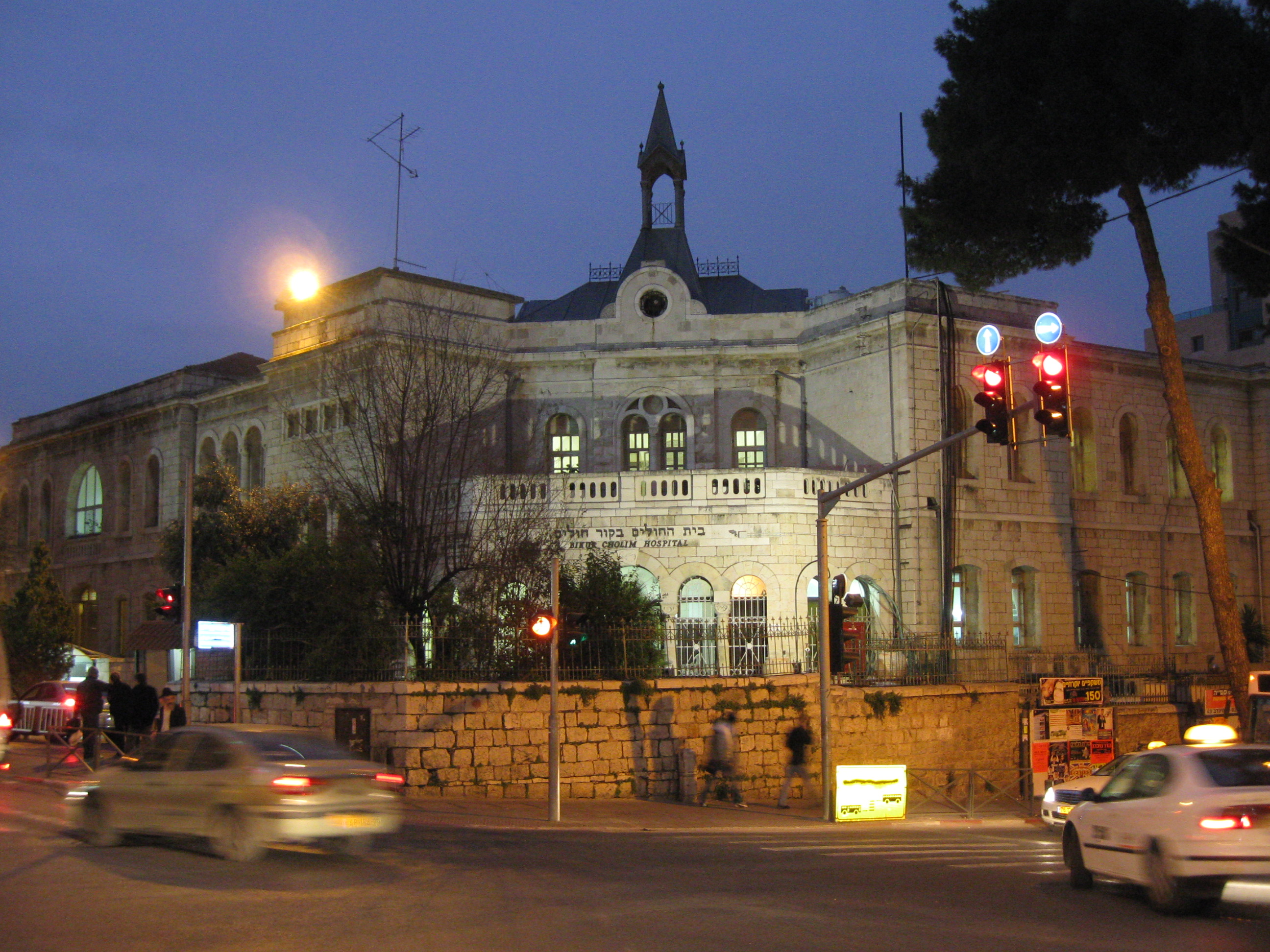 Nighttime exterior of Bikur Holim Hospital, Jerusalem.